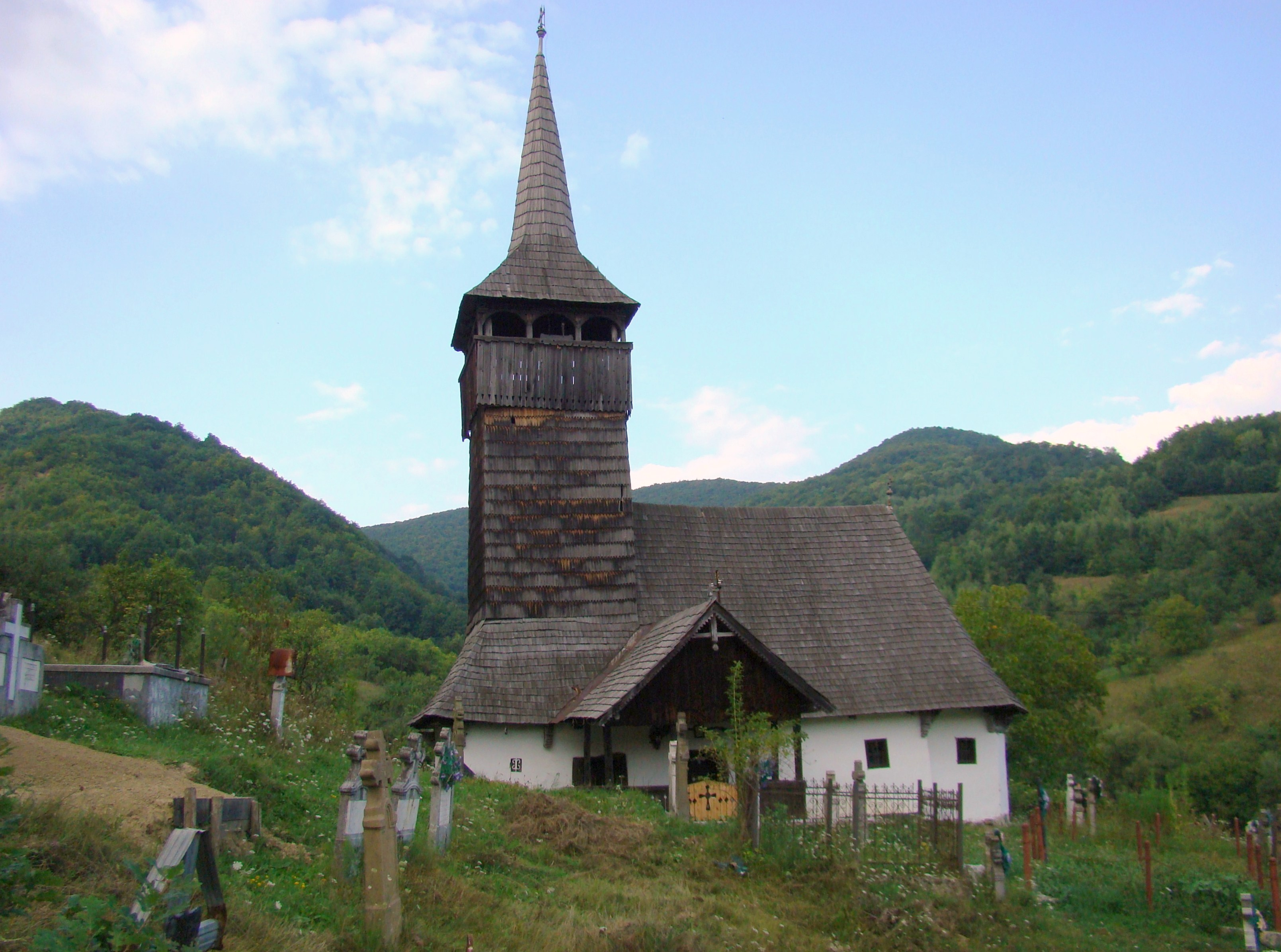 Wooden church in Rovina, Hunedoara county, Romania